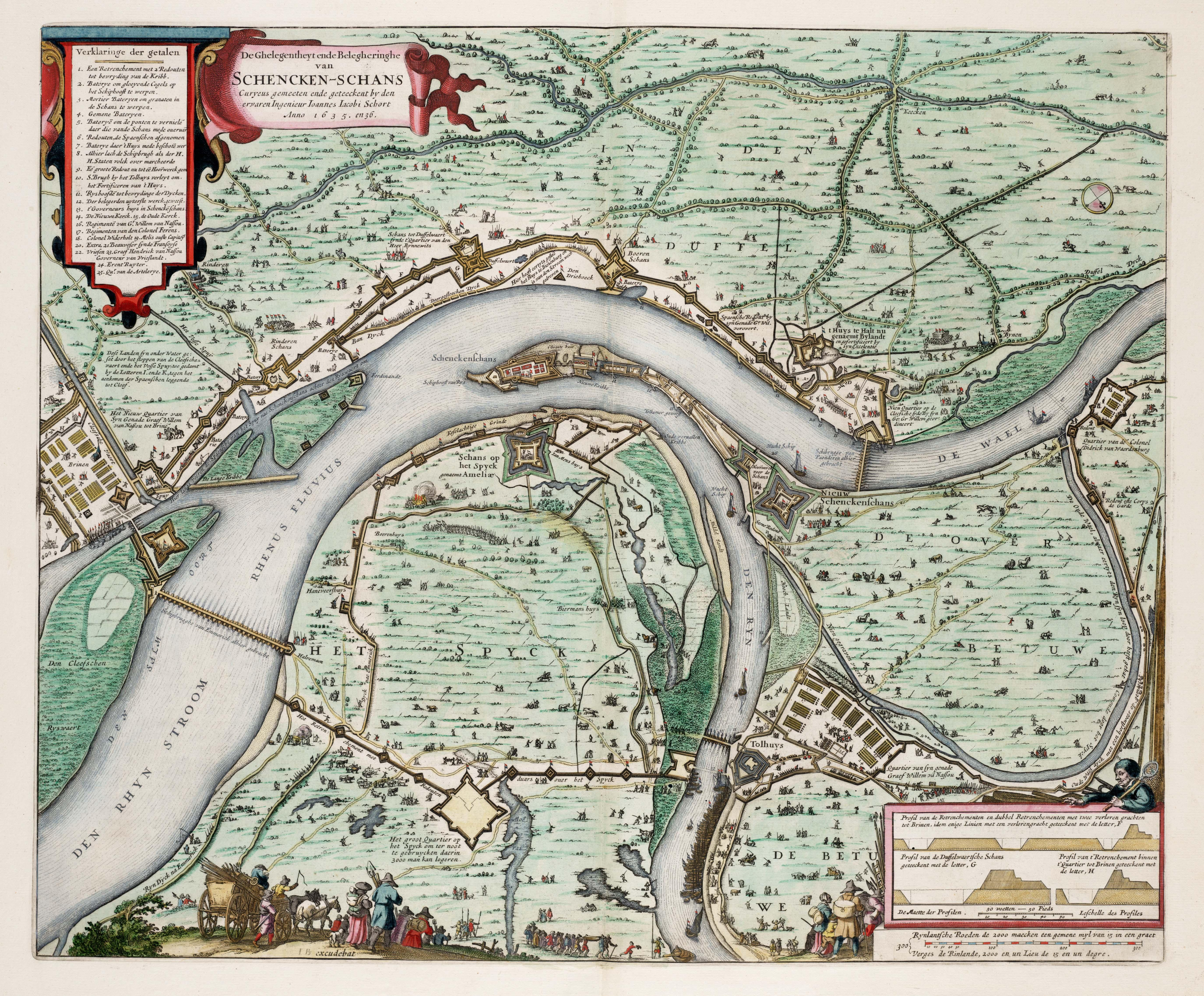 Sieges of Schenckenschans in 1635 and 1636 (South is up)